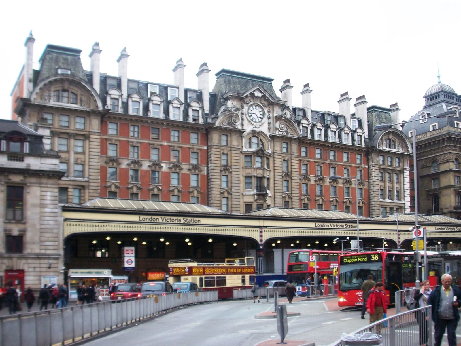 London Victoria station, London, England.